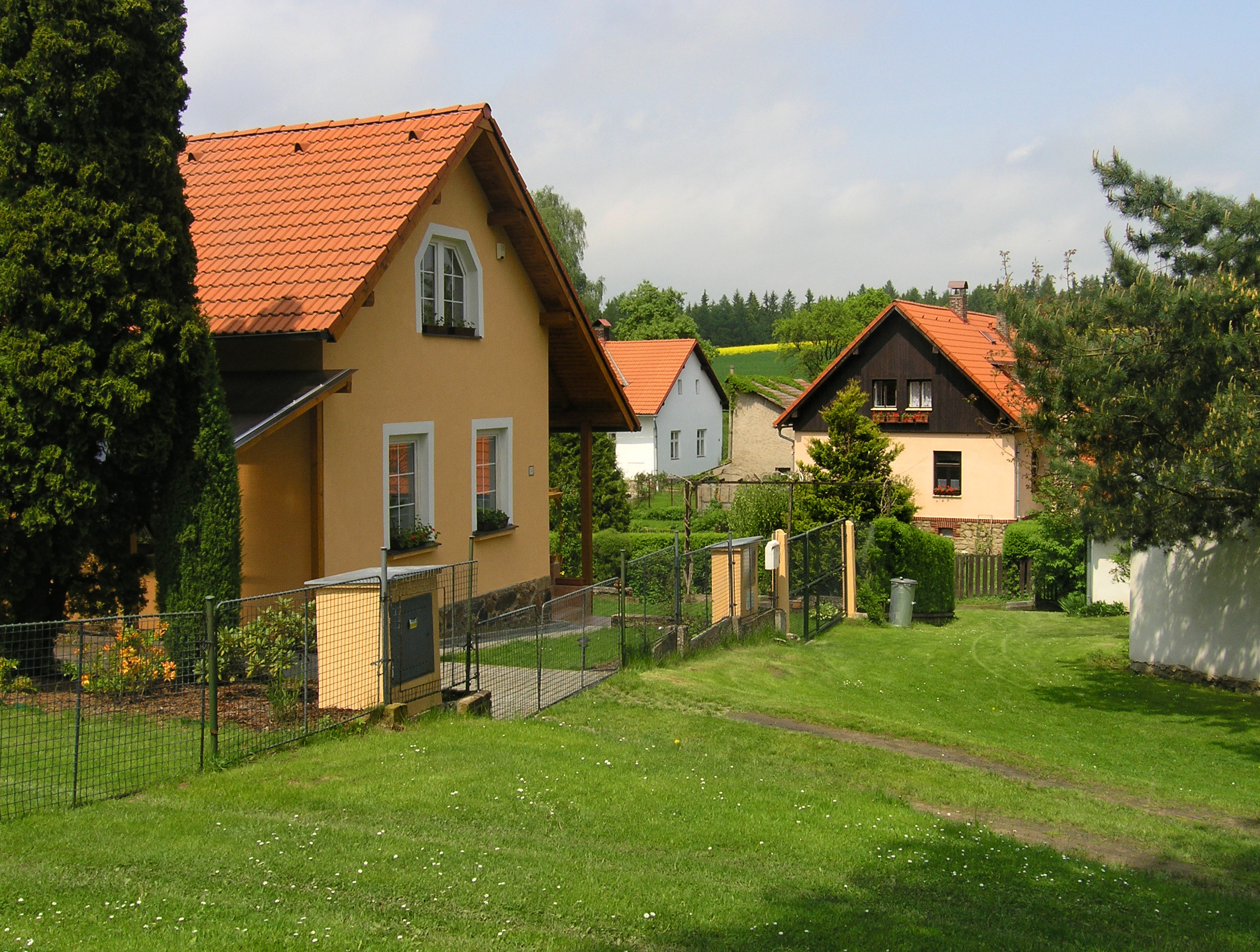 Jahodov, part of Rozsochatec village, Czech Republic